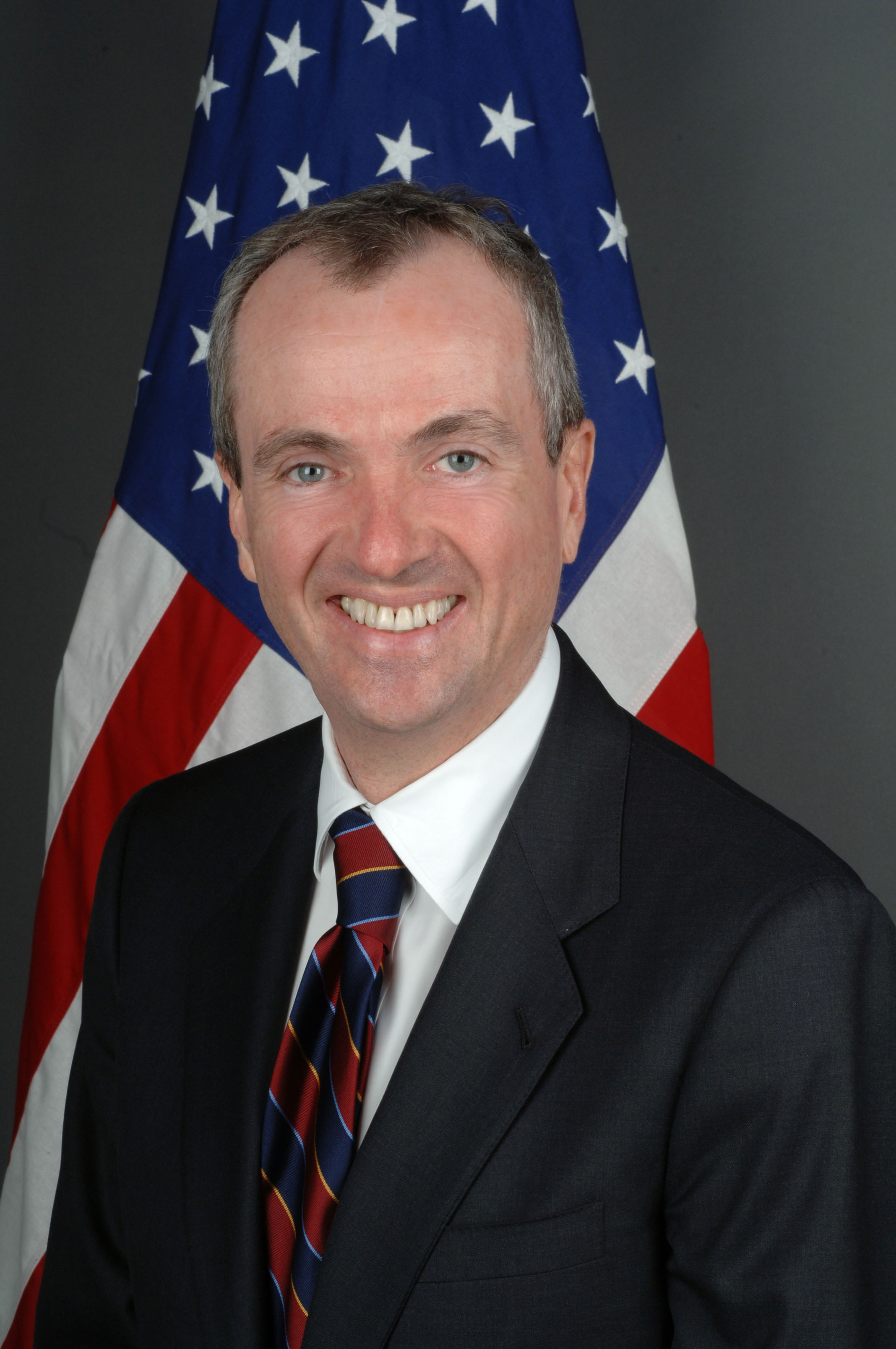 Official portrait of U.S. ambassador to Germany, Philip D. Murphy